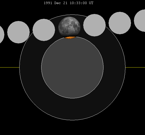 December 1991 lunar eclipse chart of moon's partial lunar eclipse path through the earth's shadow. thumb